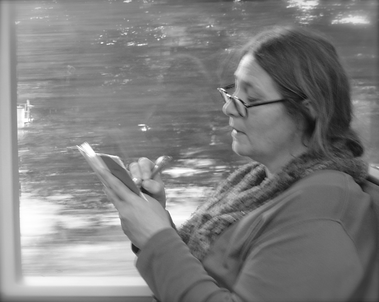 Martine from Reniere&Depla